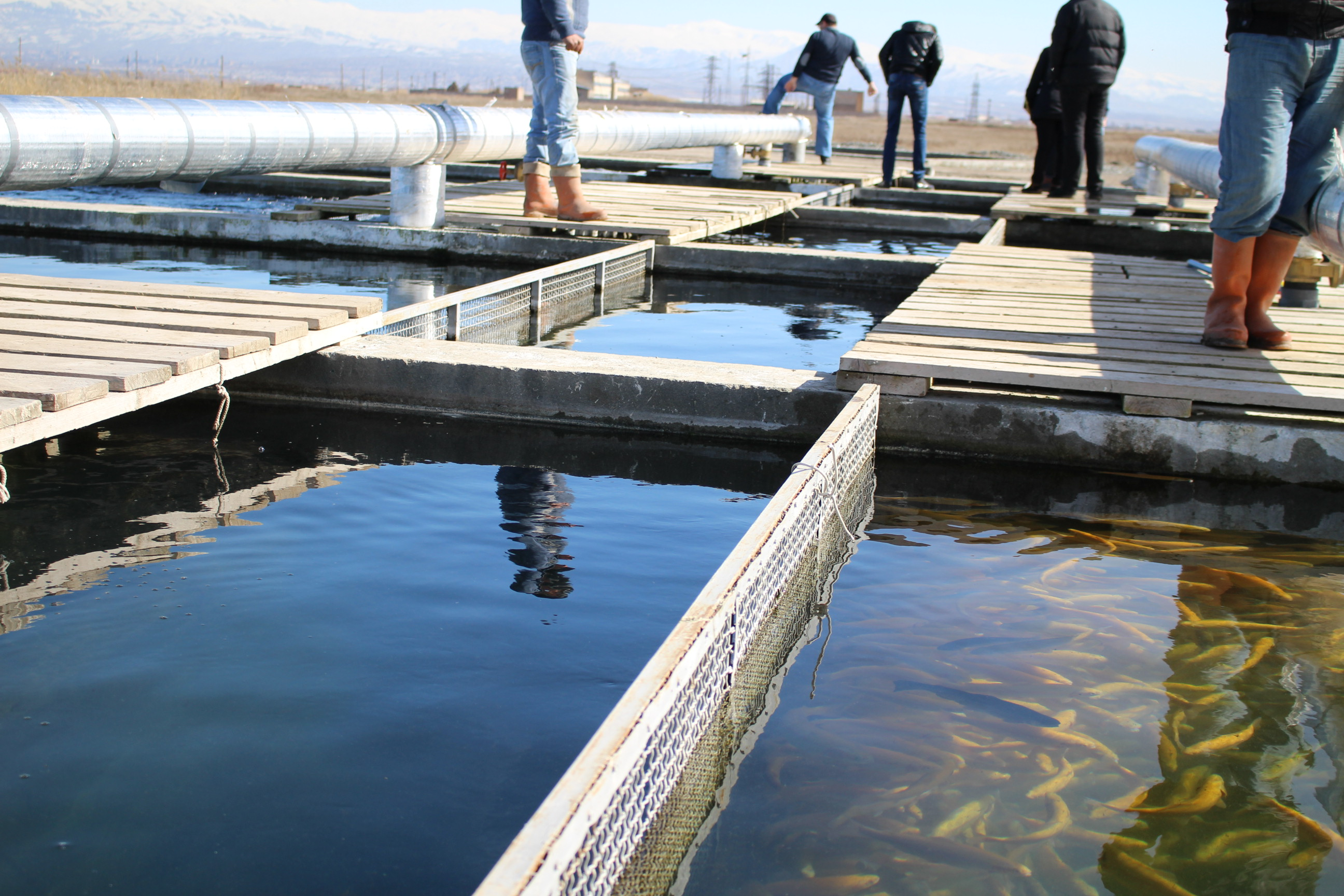 Fish Farm in Sipanik, Ararat marz, Armenia